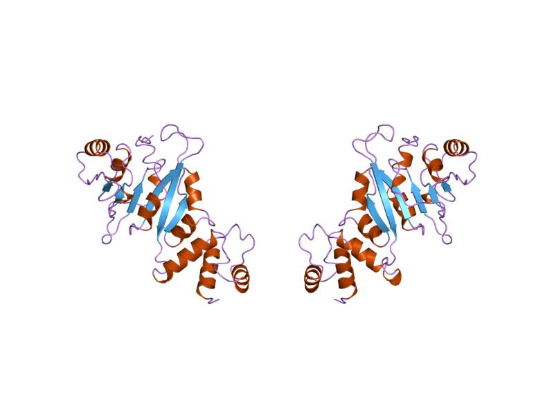 Cartoon representation of the molecular structure of protein registered with 2erc code.